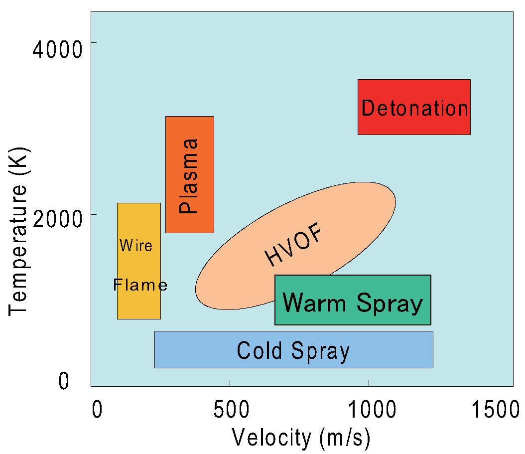 Comparison of various thermal spray processes in terms of particle temperature and velocity